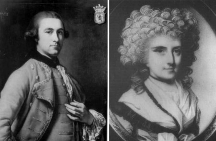 John Lyon, 9th Earl of Strathmore and Mary Eleanor Bowes, Countess of Strathmore (1749 - 1800)